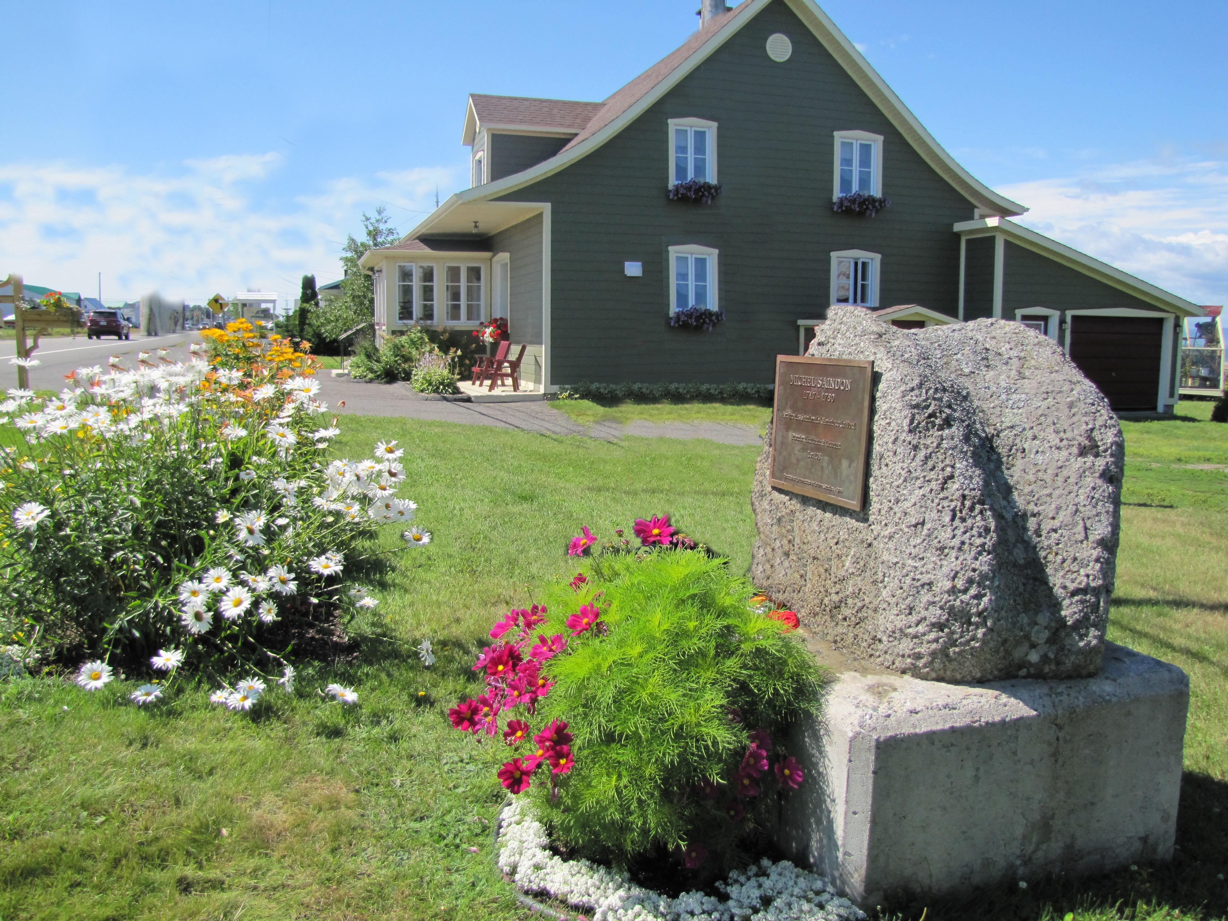 Commemorative panel of pioneer Michel Saindon house in Cacouna, QC, Canada